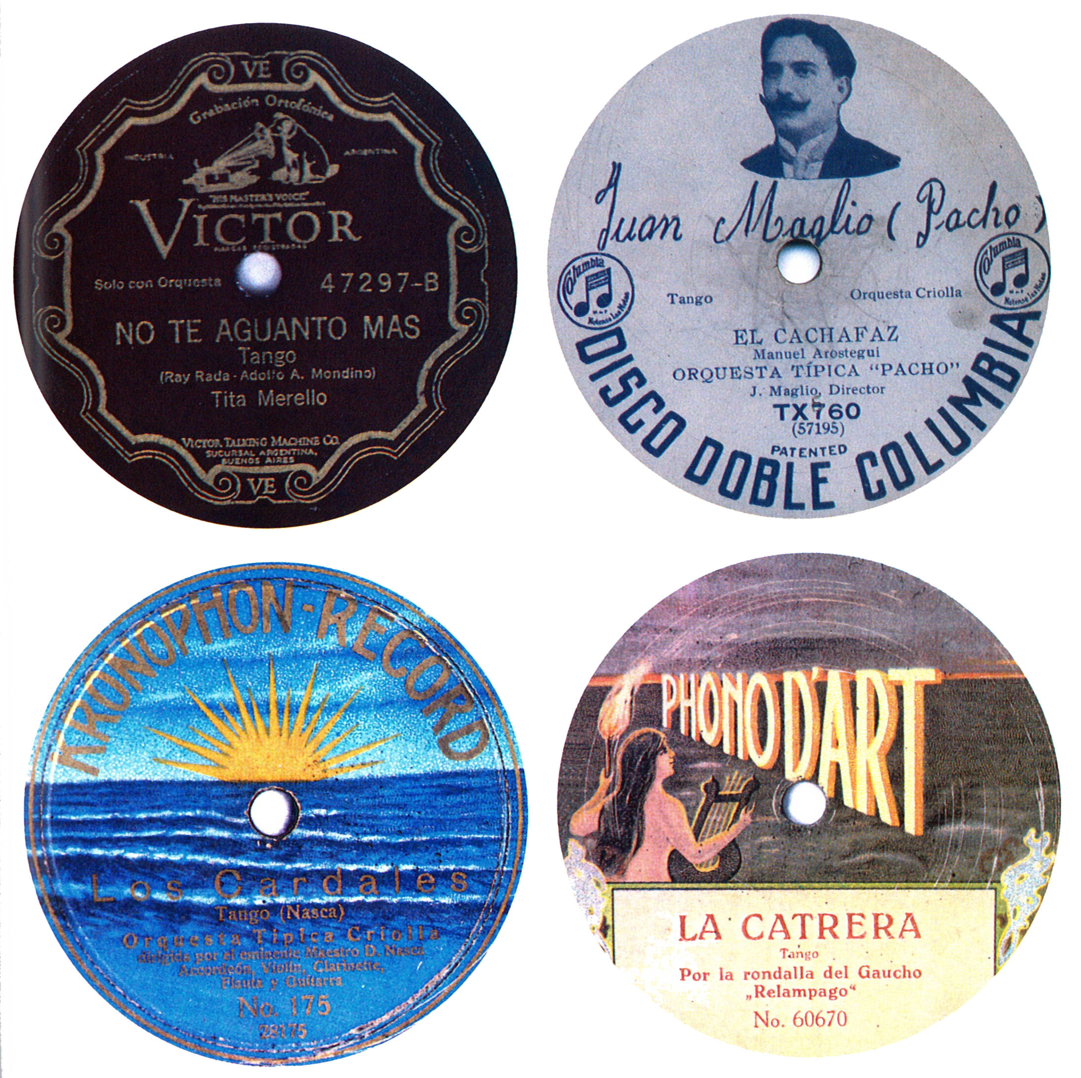 Labels of old tango-records